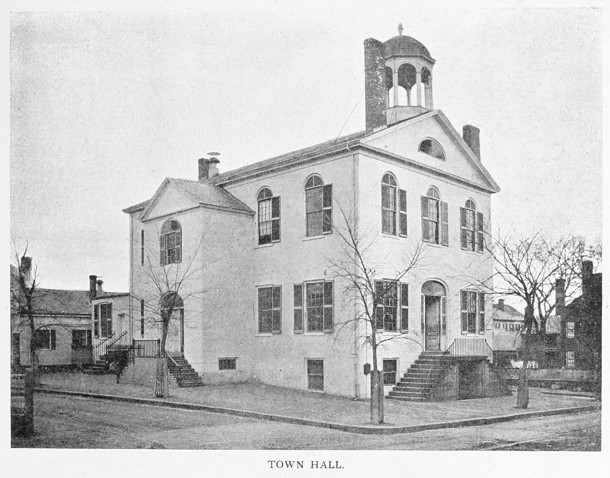 Roxbury Massachusetts Town Hall, as printed in Roxbury Magazine By Branch Alliance, All Souls' Unitarian Church (Roxbury, Boston, Mass.).